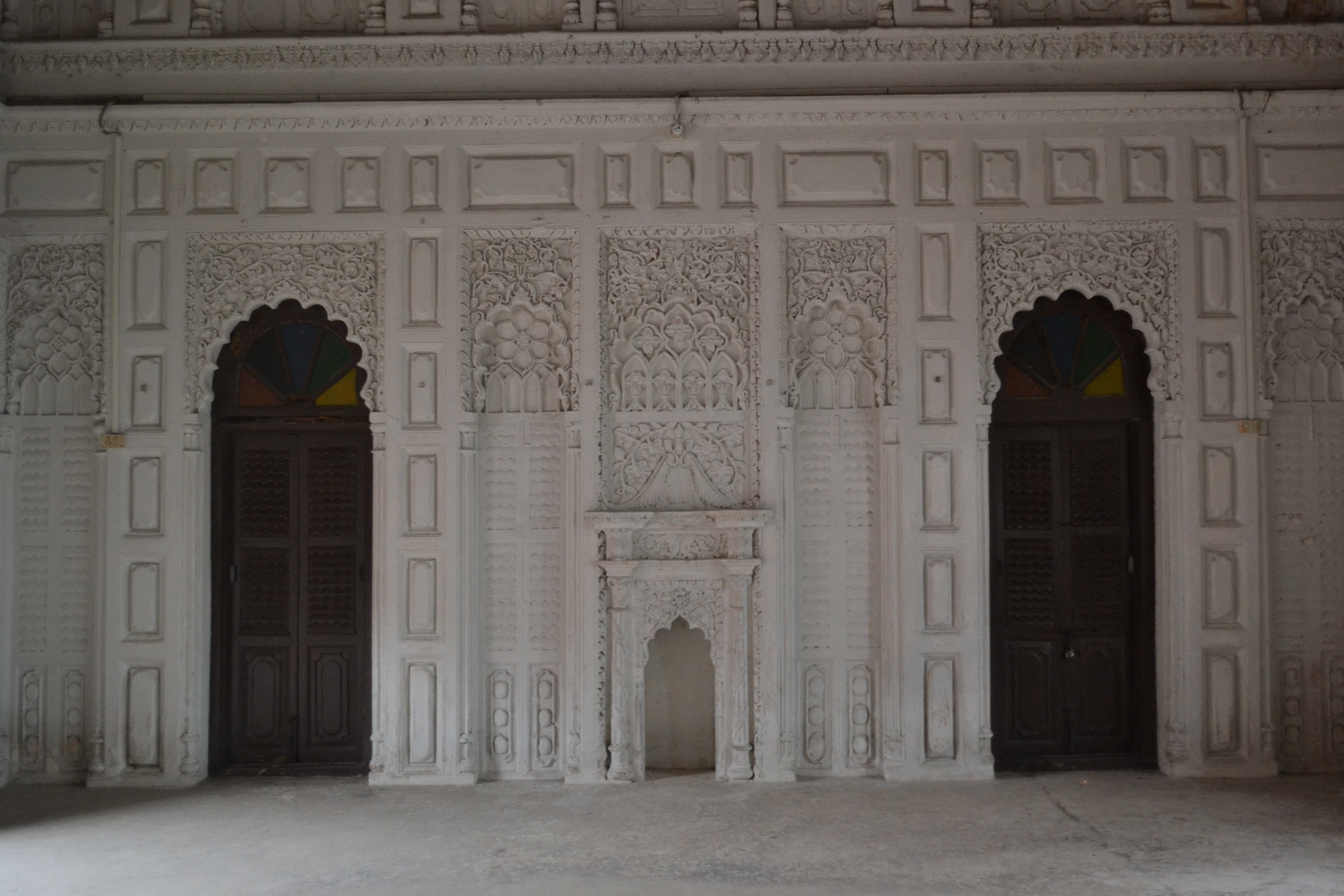 Observatory of Mansingh